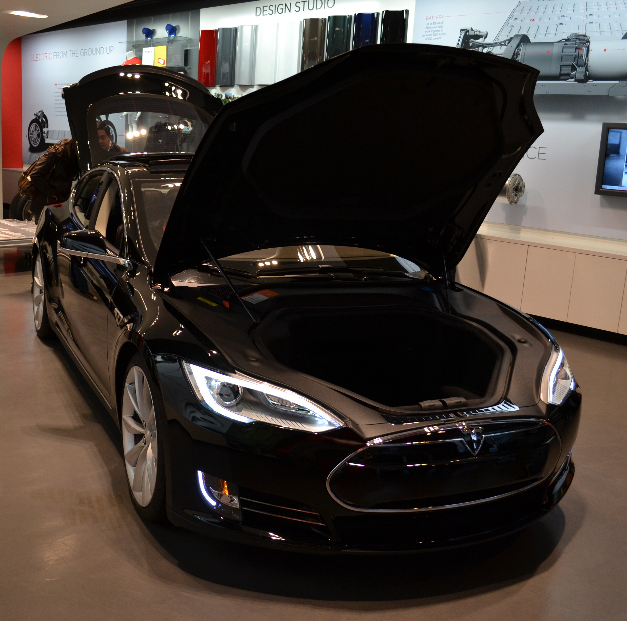 Tesla Model S with hood up showing the empty space where the internal combustion engine would have been